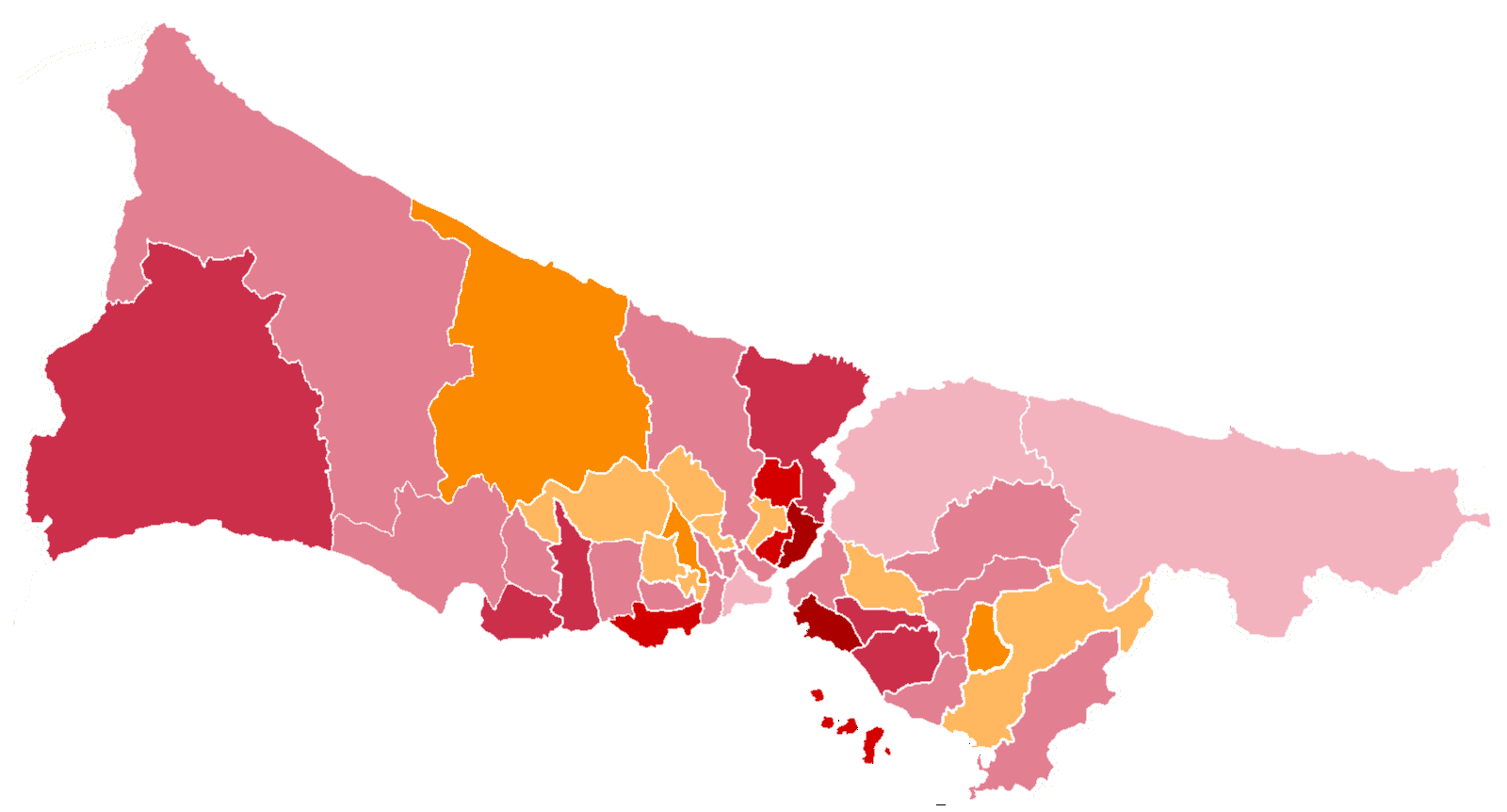 Districts won by Ekrem İmamoğlu (red) and Binali Yıldırım (orange)